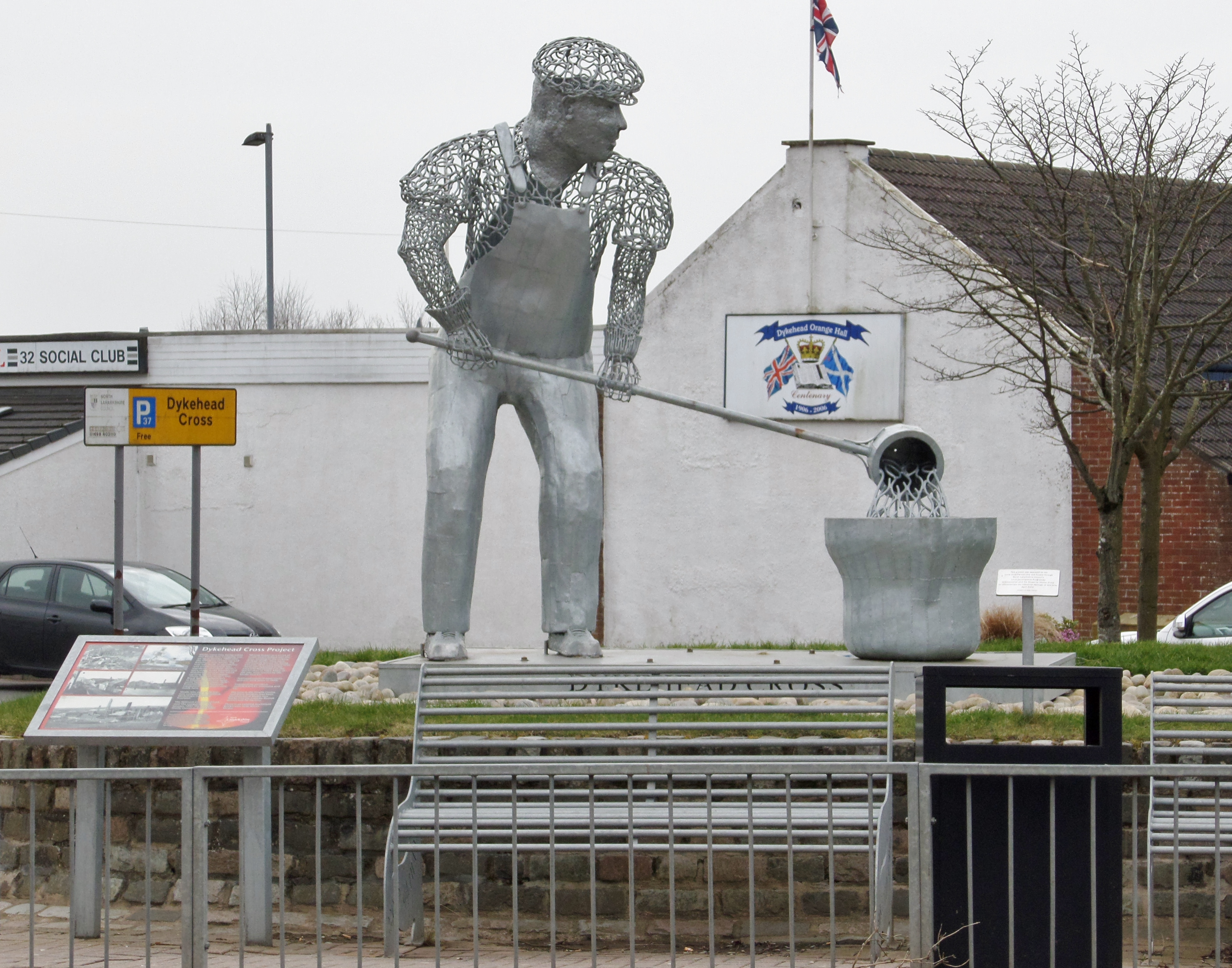 Shotts - Metal worker statue in the town centre. North Lanarkshire, Scotland.